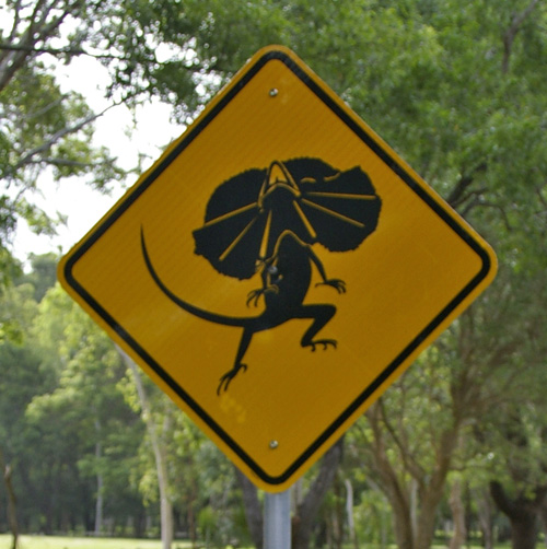 Frill neck lizard road sign in Darwin, Northern Territory.